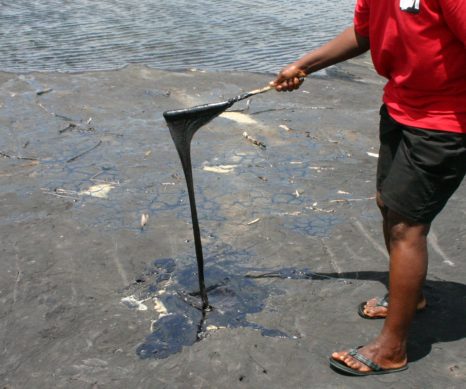 Mother-of-the-Lake, Pitch Lake, Trinidad